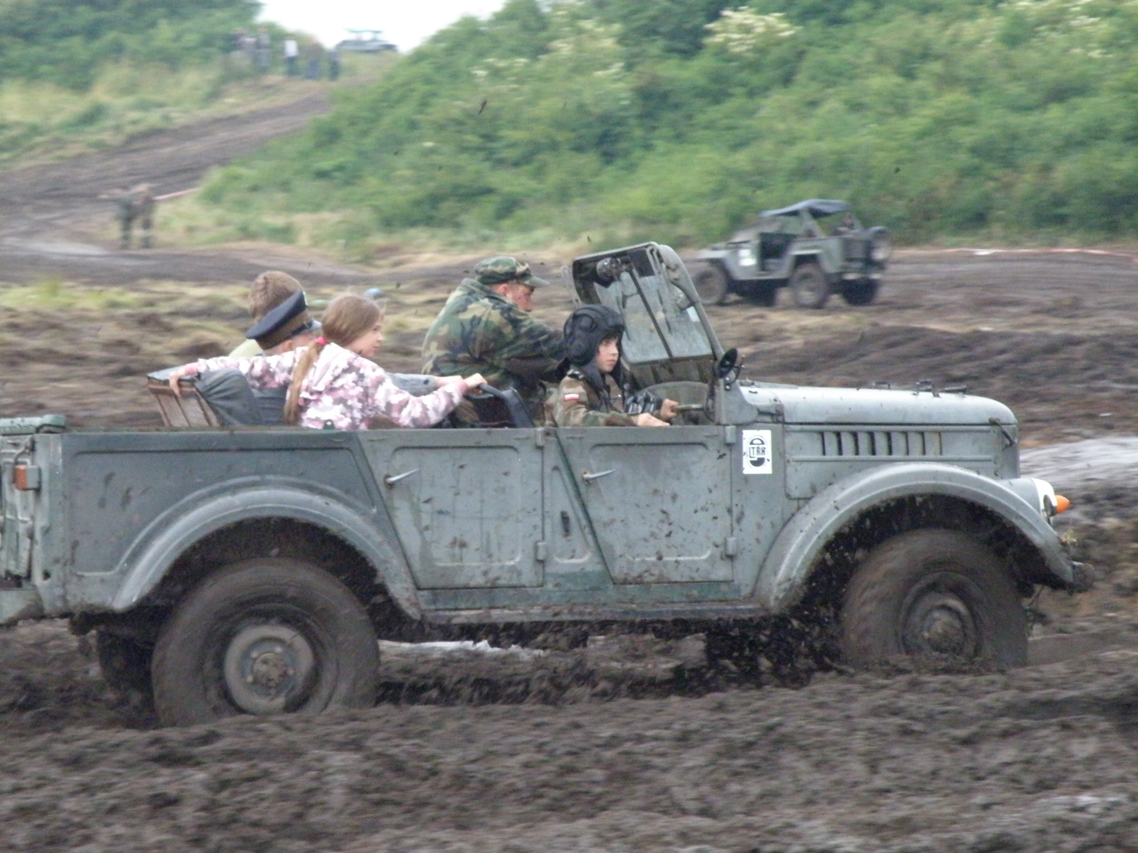 GAZ-69A (or some of its clones). The 10th International Rally of Historical Army Vehicles in Darłowo, Poland